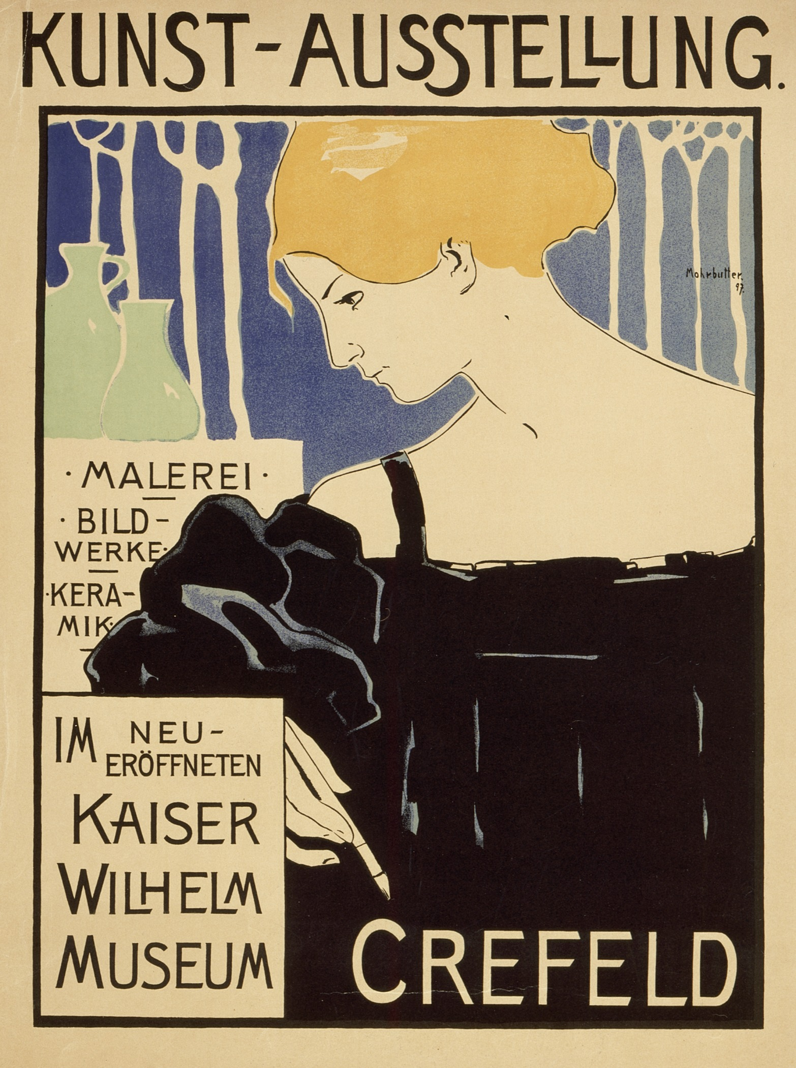 Germany, 1897 Alternate Title: Kunst-Ausstellung. Malerei. Bild-Werke. Keramik. Im Neueröffneten Kaiser Wilhelm Museum Crefeld Prints; posters Lithograph printed in black, blue, yellow and green on heavy wove paper Image: 21 1/8 x 15 1/16 in. (53.66 x 38.26 cm); Sheet: 23 5/16 x 17 5/16 in. (59.21 x 43.97 cm) Gift of the Robert Gore Rifkind Foundation, Beverly Hills, CA (M.2003.114.90) German Expressionism